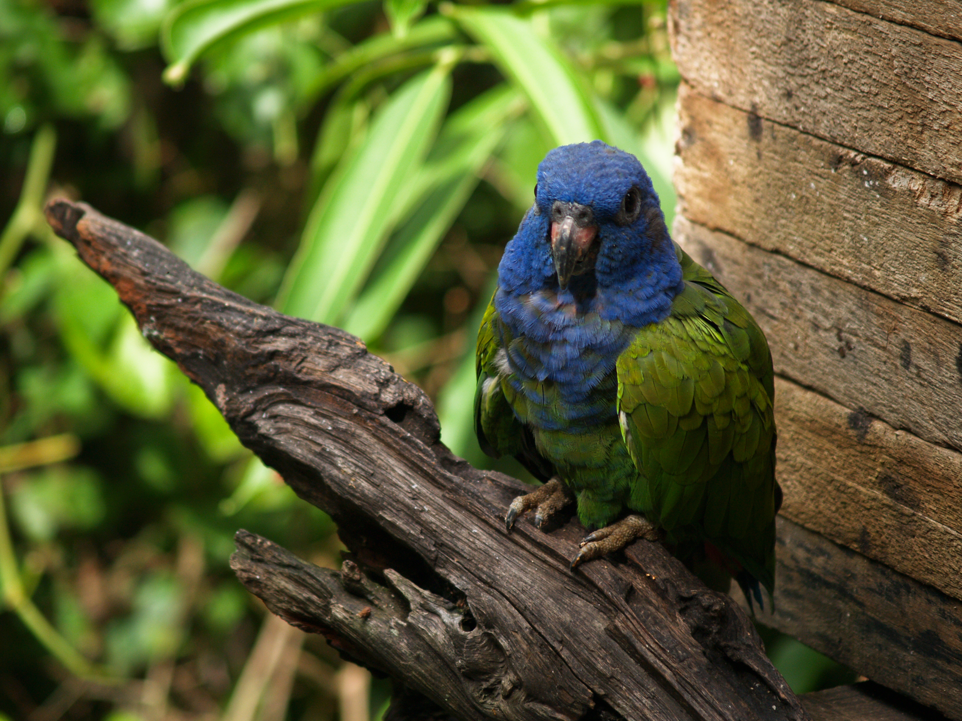 Blue-headed Parrot (also known as the Blue-headed Pionus) at La Senda Verde Animal Refuge, Yolosa, Bolivia.